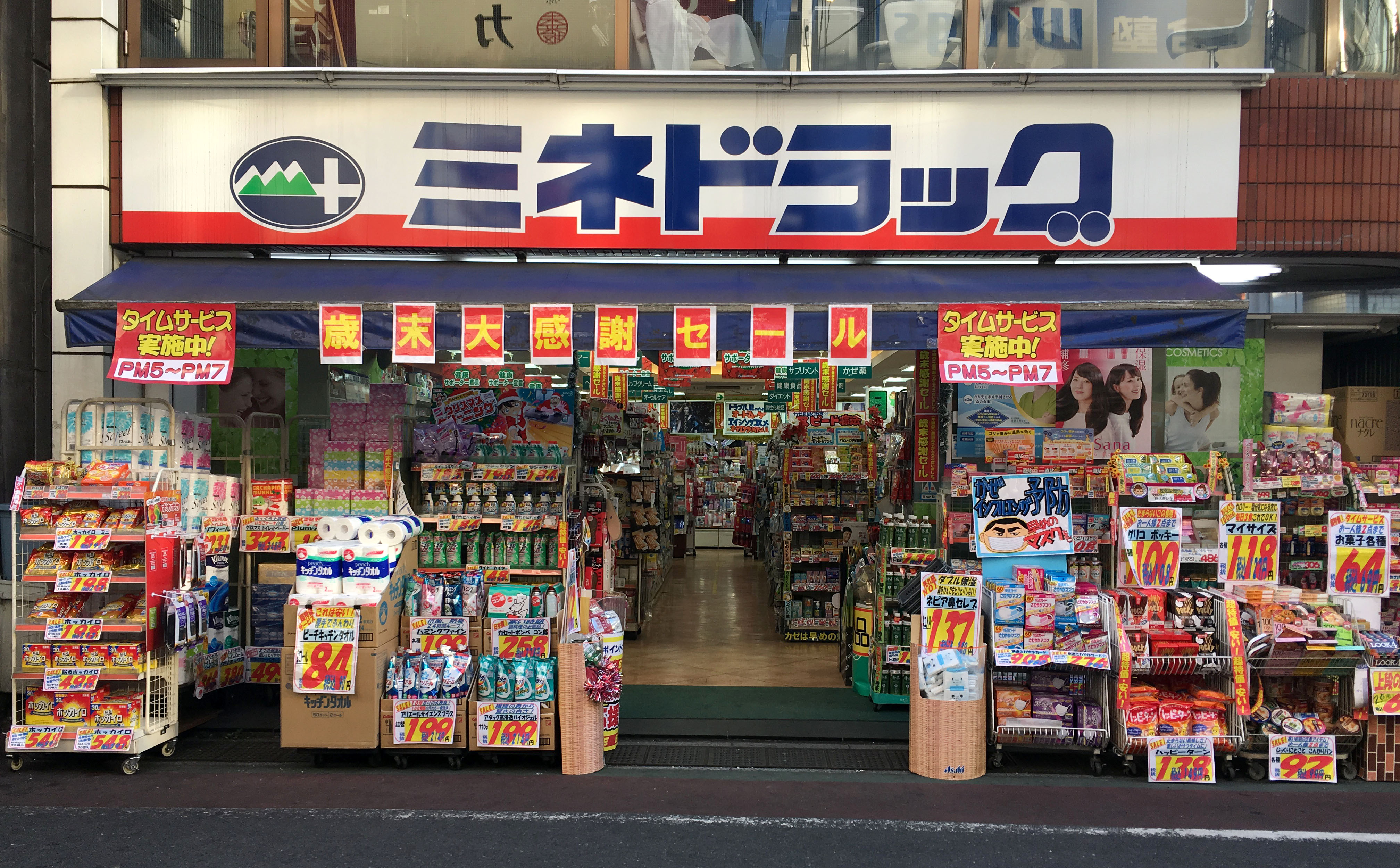 Mine Drug (Japanese pharmacy chain store) Shakujii branch (Tokyo, Japan)